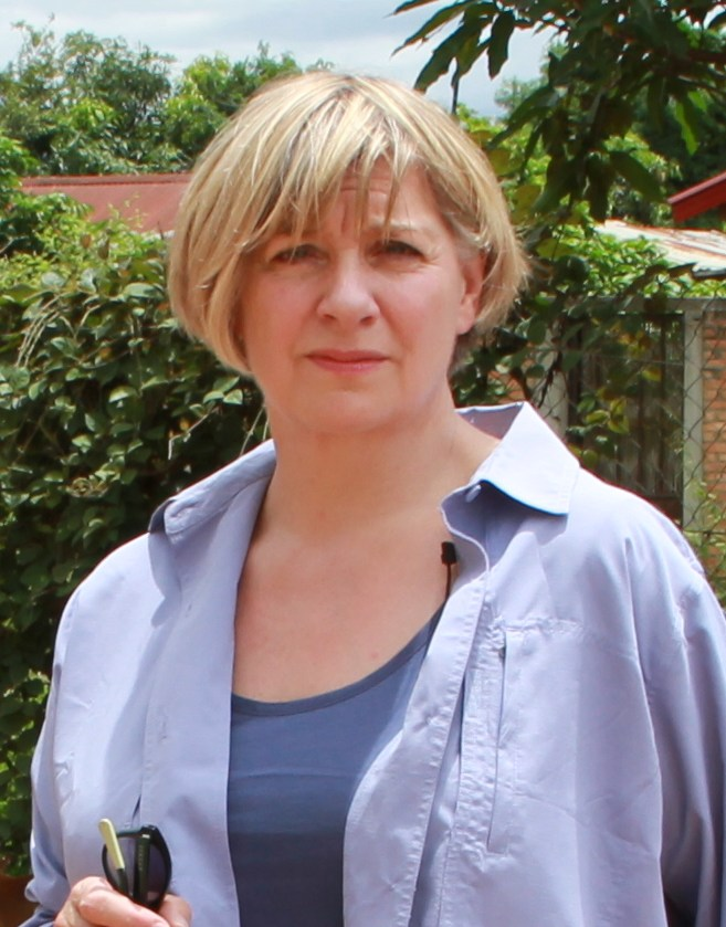 A cropped picture of British comedian Victoria Wood in Laos.